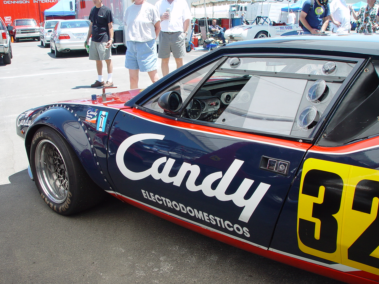 1972 De Tomaso Pantera Group 4 #THPNMA02862 during CSRG Spring Fling 2003 at Sears Point